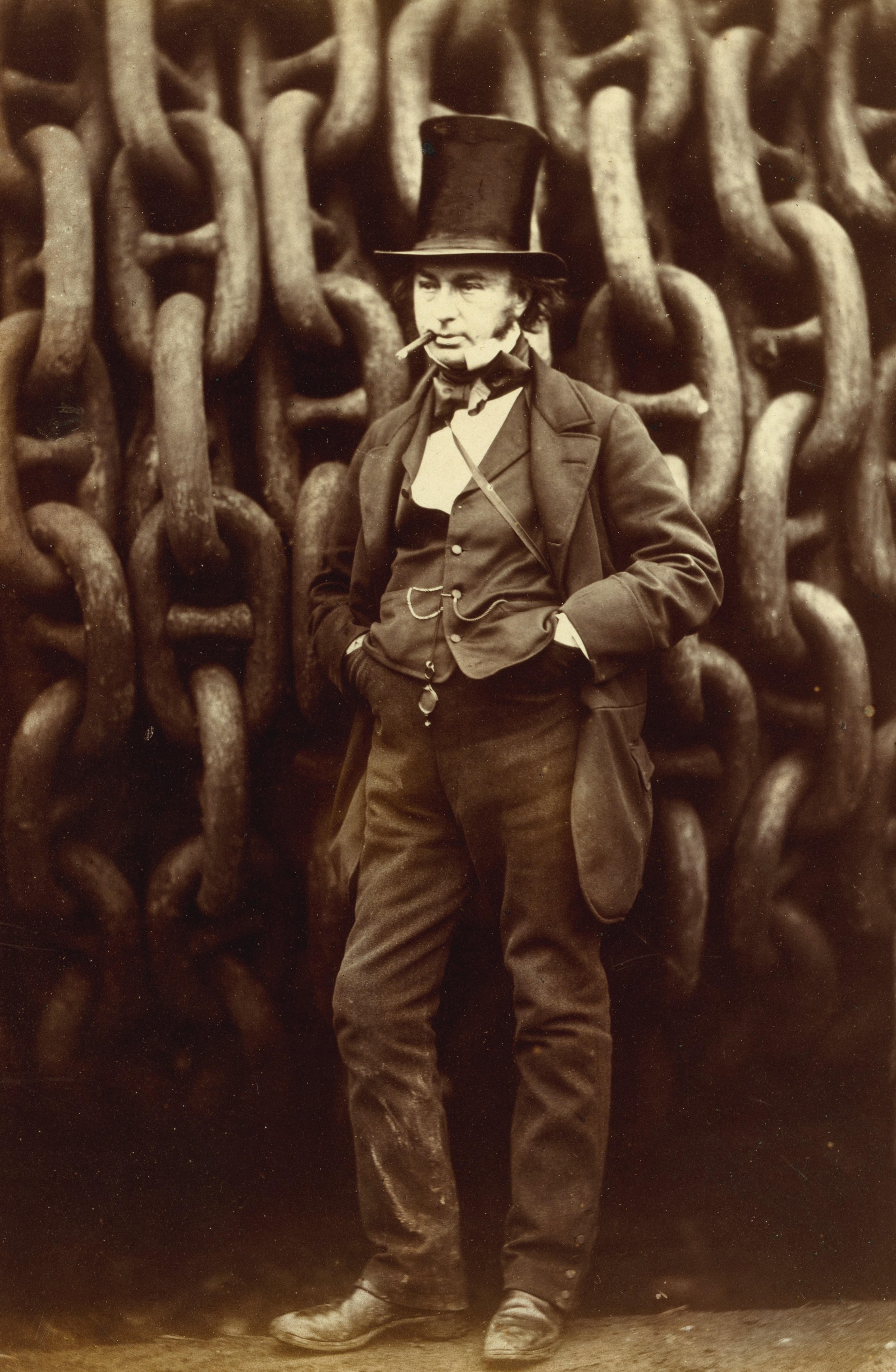 Isambard Kingdom Brunel Standing Before the Launching Chains of the Great Eastern, photograph by Robert Howlett. Now in the collection of the Metropolitan Museum of Art. Dimensions: Image: 27.9 x 21.5 cm (11 x 8 7/16 in.)